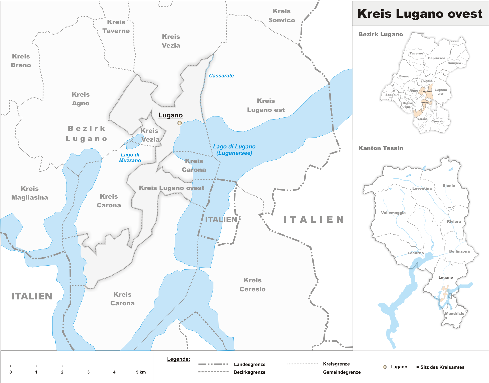 Municipalities in the circle of Lugano ovest